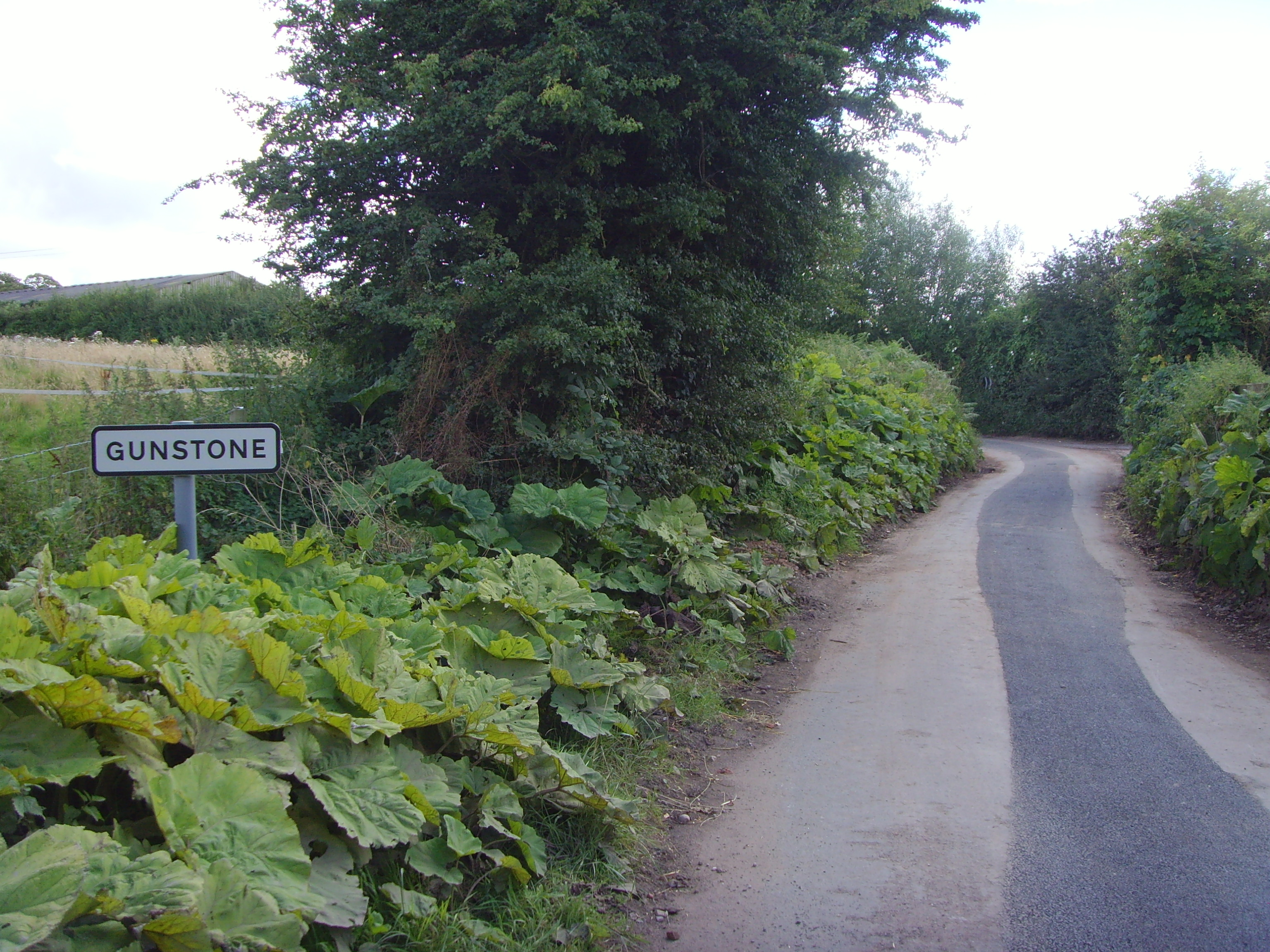 Heading into Gunstone from Codsall Wood on Whitehouse Lane.